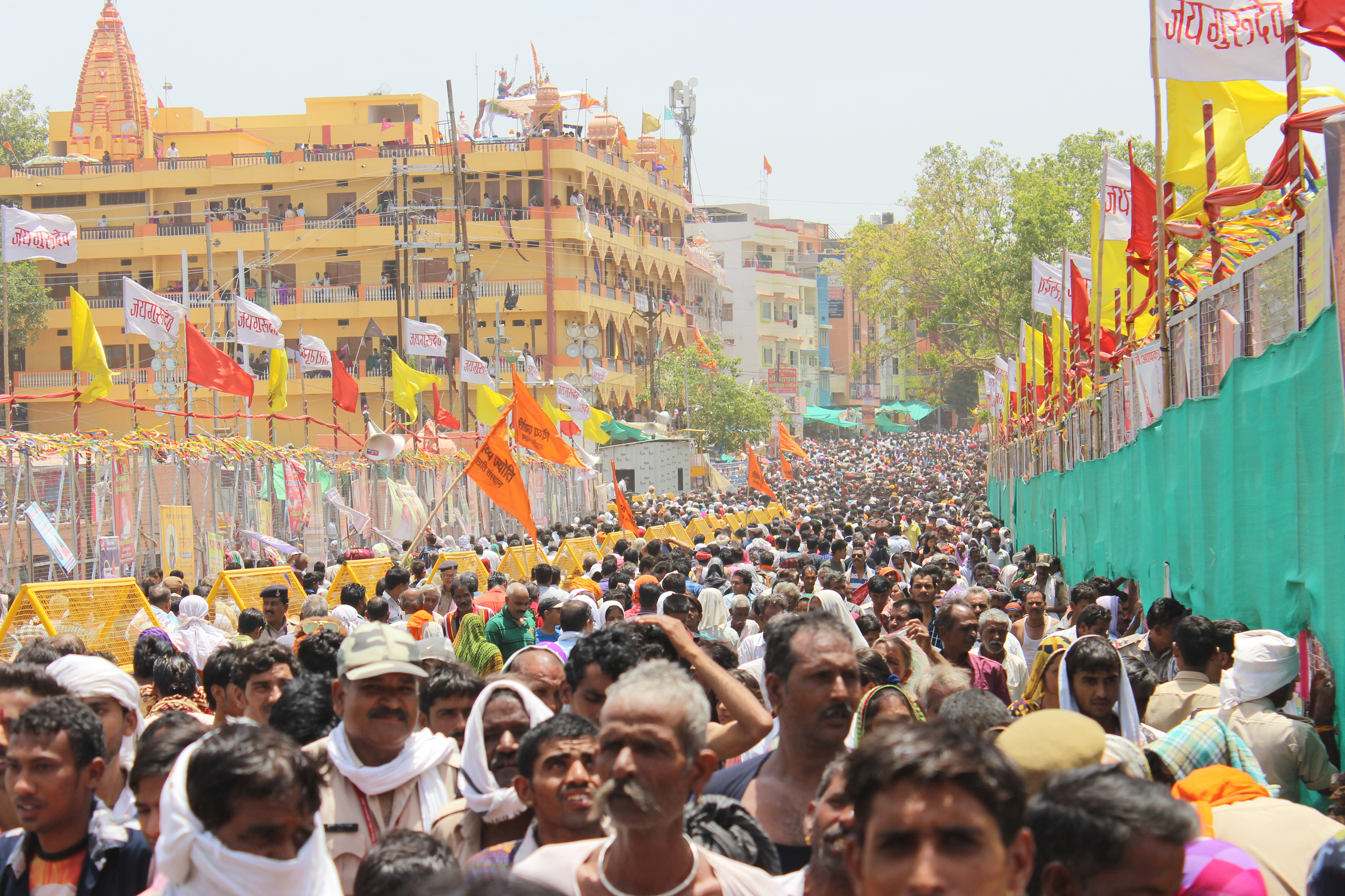 Simhasth2016 Ujjain Piligrims